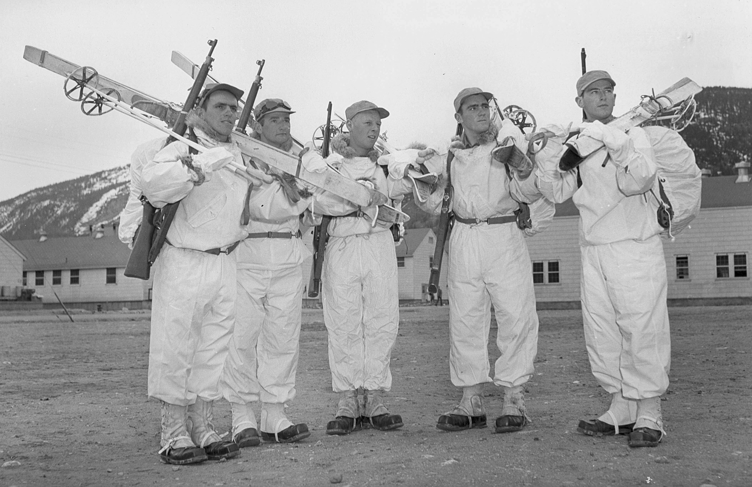 Members of the 10th Light Infantry Division at Camp Hale, Keene, New Hampshire. Left -to- right: Clare Symonds, Elton Beard, Vincent Dalzell, ____ Ducheneau, Clifford Perkins. image c.a. 1940-1944. (Unit History Collection). (Members of what was then called the 10th Light Infantry Division (Alpine), prepare for ski training at Camp Hale, Colo. )